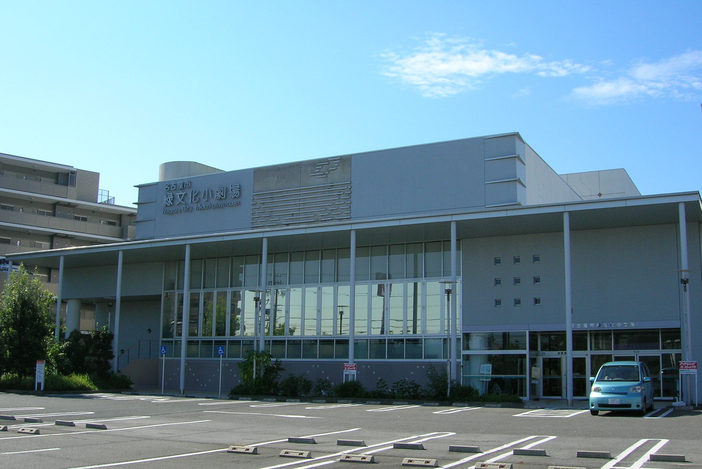 Nagoya City Midori Playhouse. Loc: Midori-ku, Nagoya city, Aichi Prefecture, Japan. 名古屋市緑文化小劇場 撮影場所 愛知県名古屋市緑区